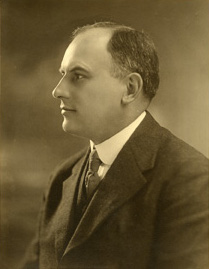 Portrait of Francis A. Bartlett